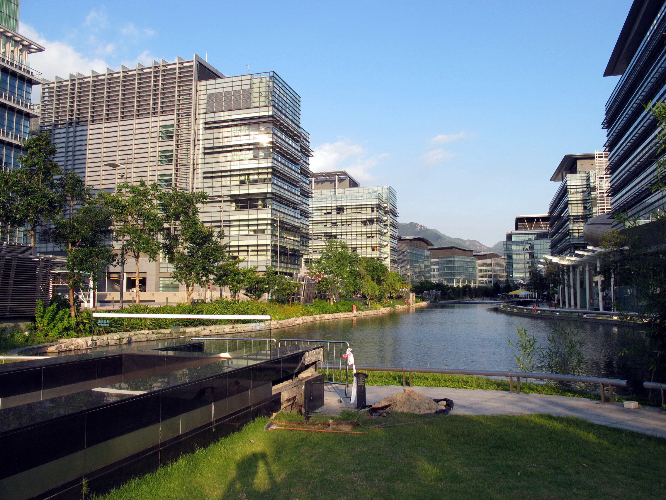 Hong Kong Science Park Phase 1